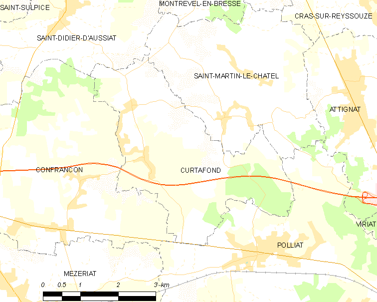 Map of French commune: Curtafond Map commune FR insee code 01140.png